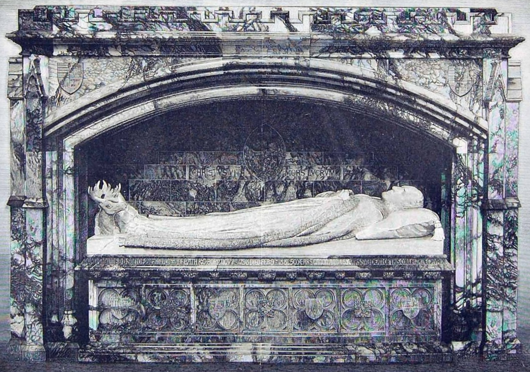 Monument and effigy of Rev. Lord John Thynne (1798-1881), Canon of Westminster Abbey, of Haynes Park, Bedfordshire, and lord of the manor of Kilkhampton, Cornwall, 3rd son of Thomas Thynne, 2nd Marquess of Bath (1765-1837). Sculpted by H.H. Armstead, RA. Published in The Builder magazine, 29 November 1884.